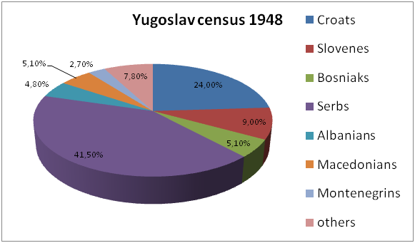 Pie chart of the ethnic composition of the 1948 Yugoslav census (in %)